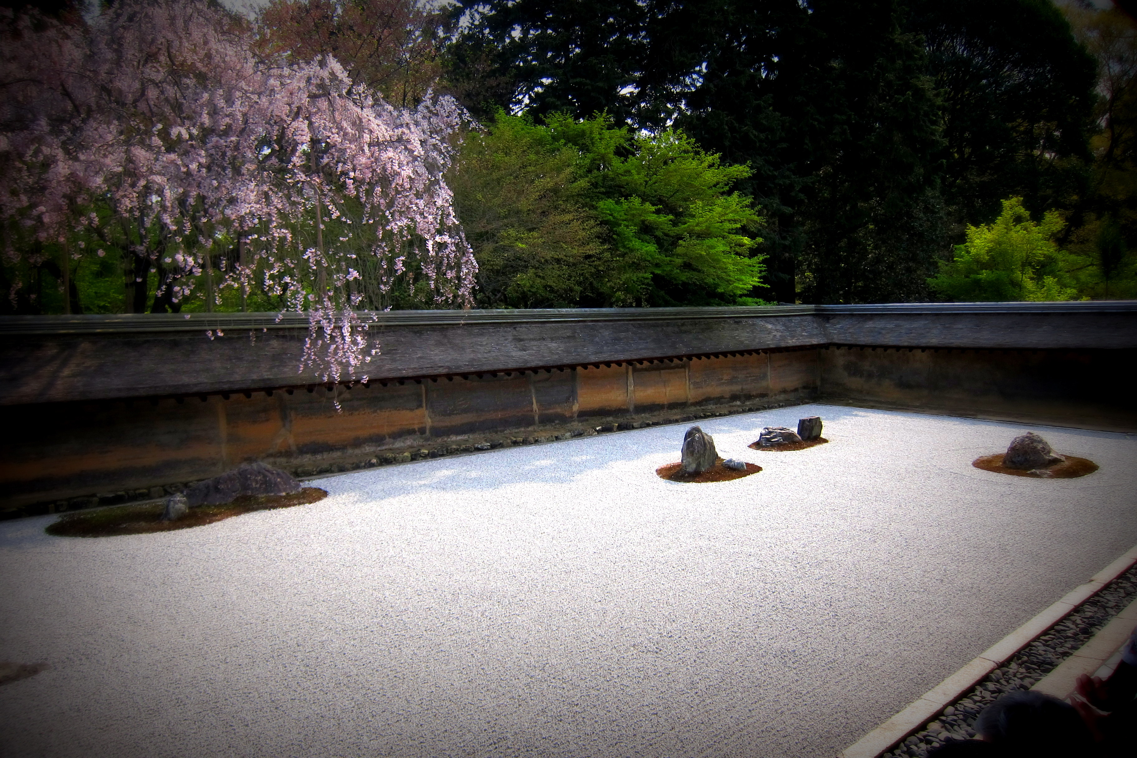 Rioandži sodas